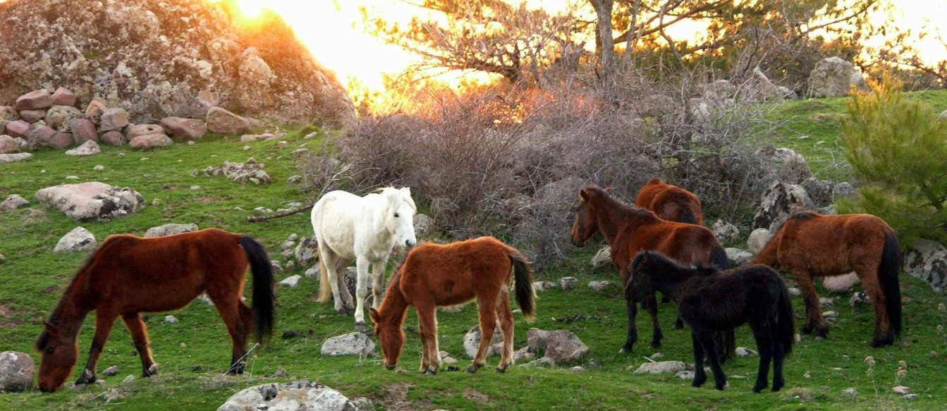 Wild horses roaming on the slopes of Mount Yamanlar, İzmir, Turkey